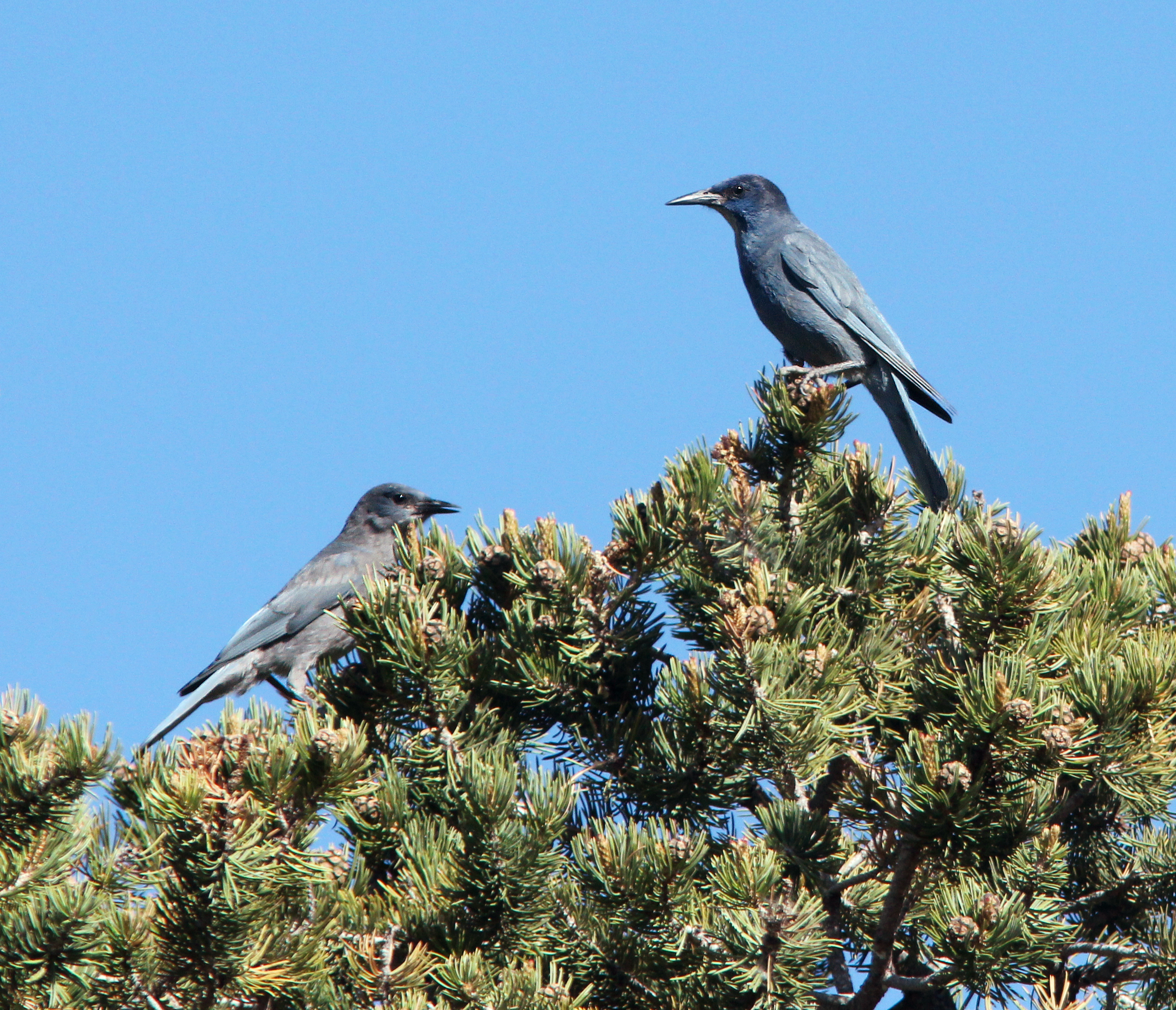 Pinyon Jay Gymnorhinus cyanocephalus, Bear Creek, west of Huntington, Emery Co., Utah